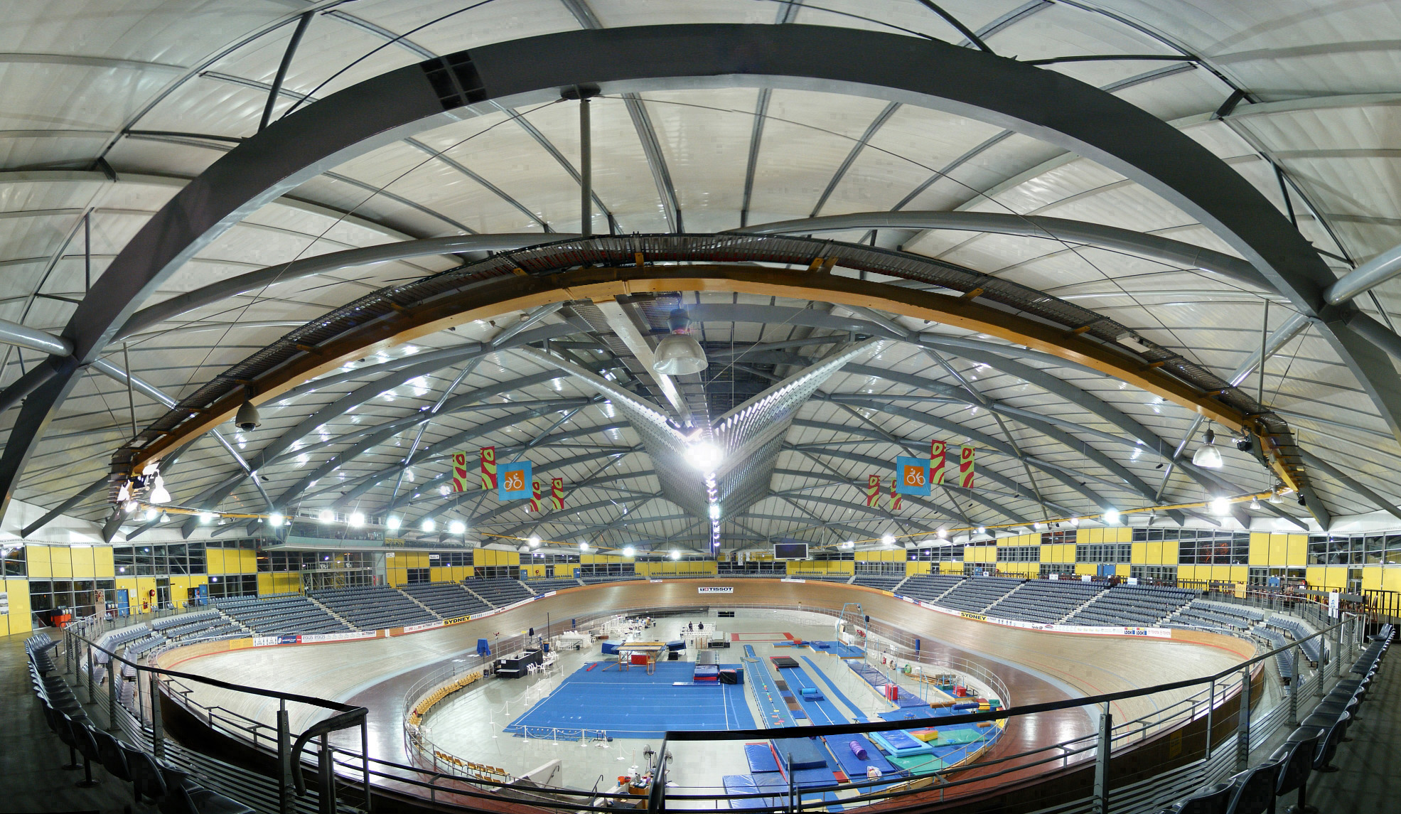 Dunc Gray Velodrome in the City of Bankstown. This is a 32 photo stitch. The photo is of reasonable quality, you can see a few bad joins, but apart from that it's not bad for a 31-32 photo Join that has been slightly cropped. I could have included more of the roof but the joins showed to much in it.Adam.J.W.C. 00:31, 4 March 2008 (UTC)